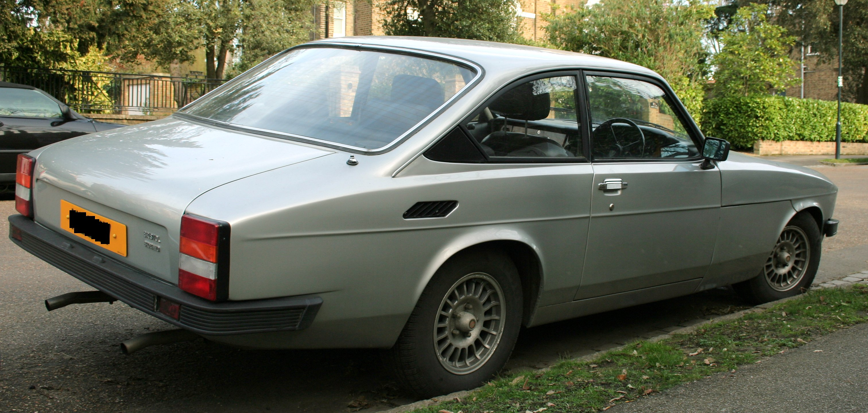 Bristol Brittania(car, not aeroplane) Taken (by uploader) Mon12Mar07, London, UK Also none chromed bumpers, twin exhausts and no side air vents make it a Britannia